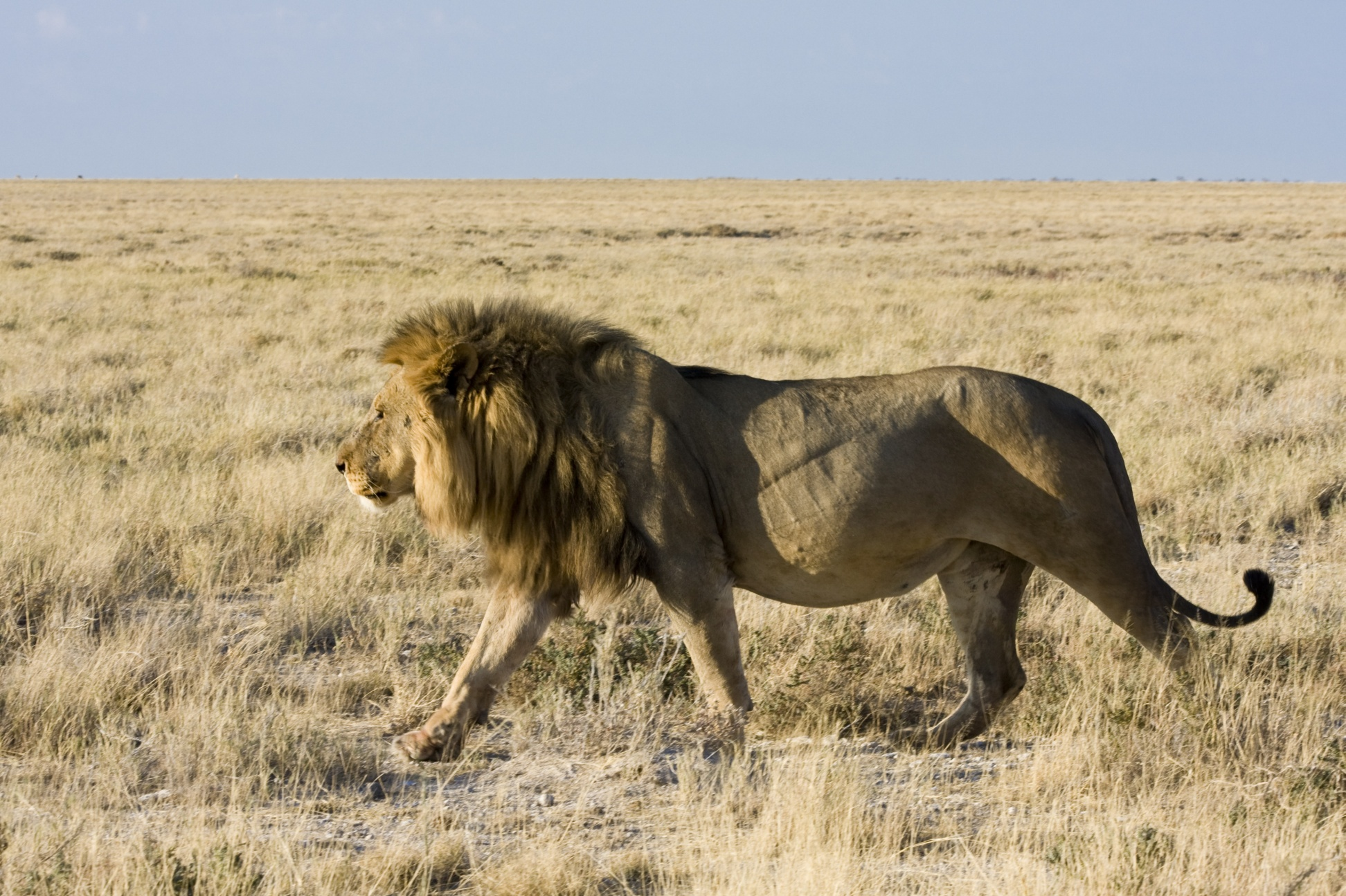 Löwe im Etosha-Nationalpark, Namibia